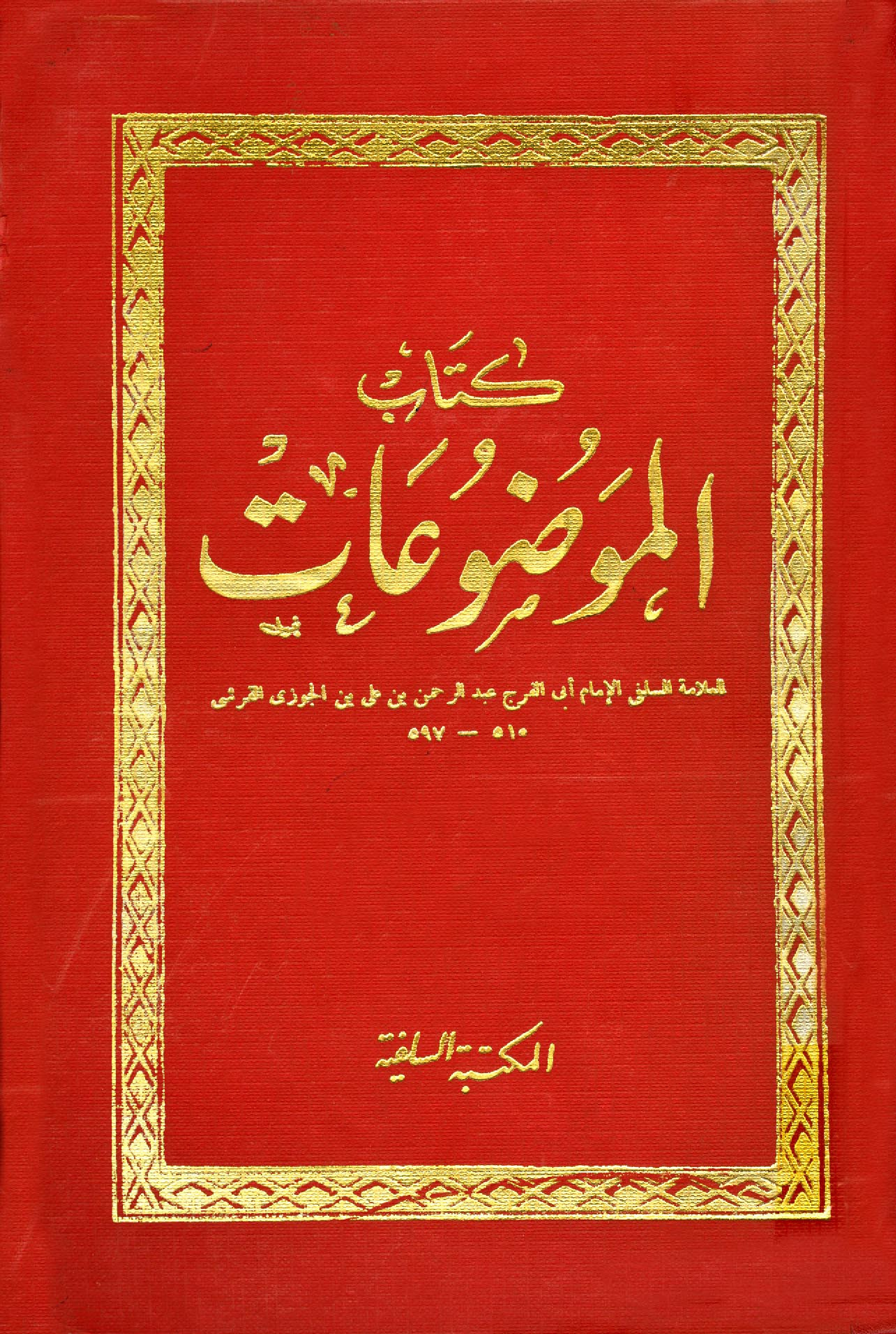 A Great Collection of Fabricated Traditions (Author: Abu'l-Faraj ibn al-Jawzi, 1116-1201 AD.)